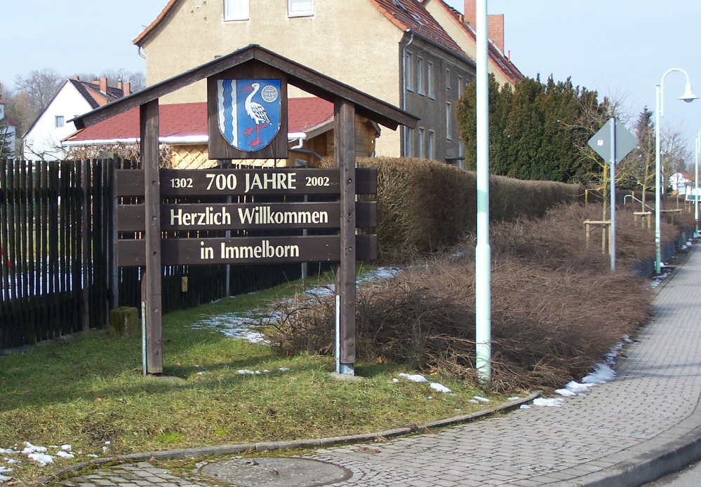 A nice welcome to Immelborn at the outskirts of town.